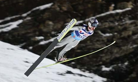 Roman Koudelka during canceled competition of FIS Ski-Flying World Championships 2012 in Vikersund